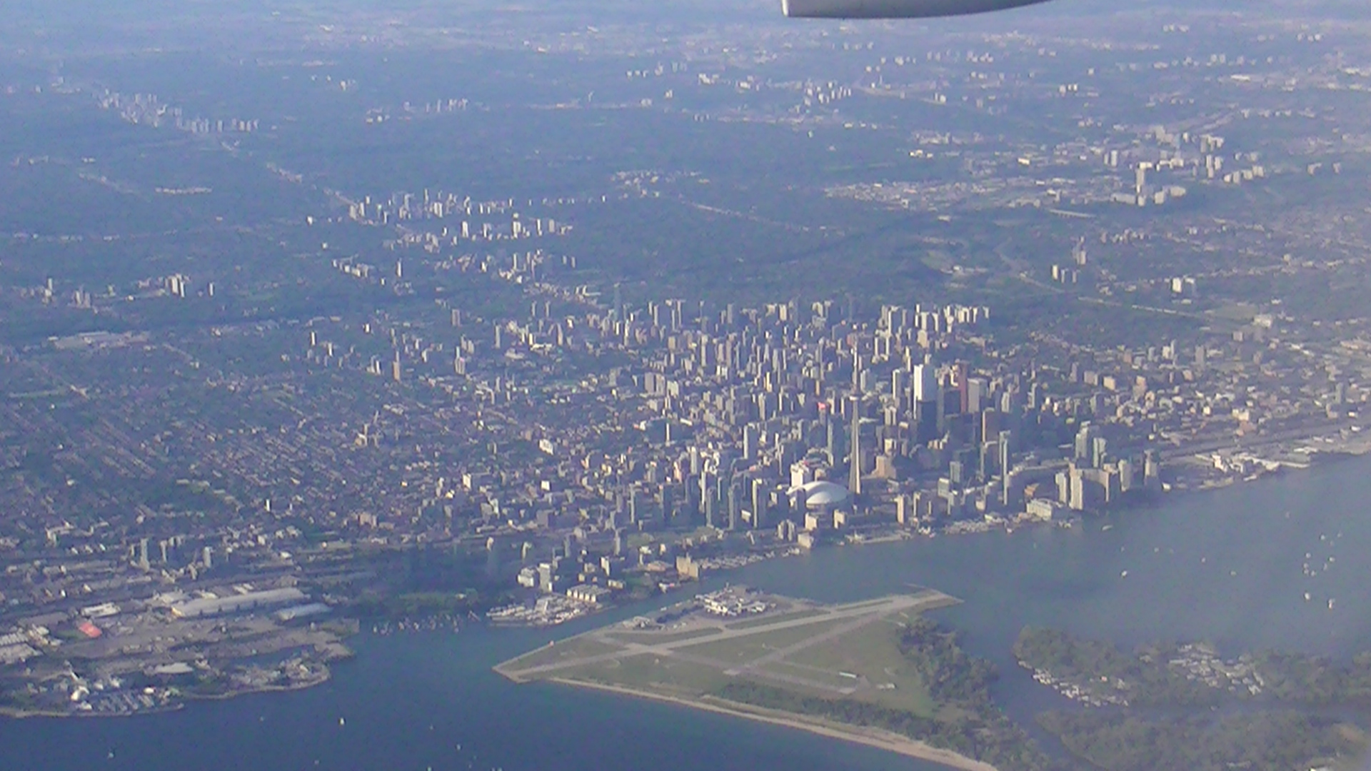 Downtown Toronto from the air